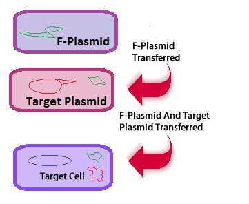 Triparent Mating Diagram showing the information being transfered in conjugation